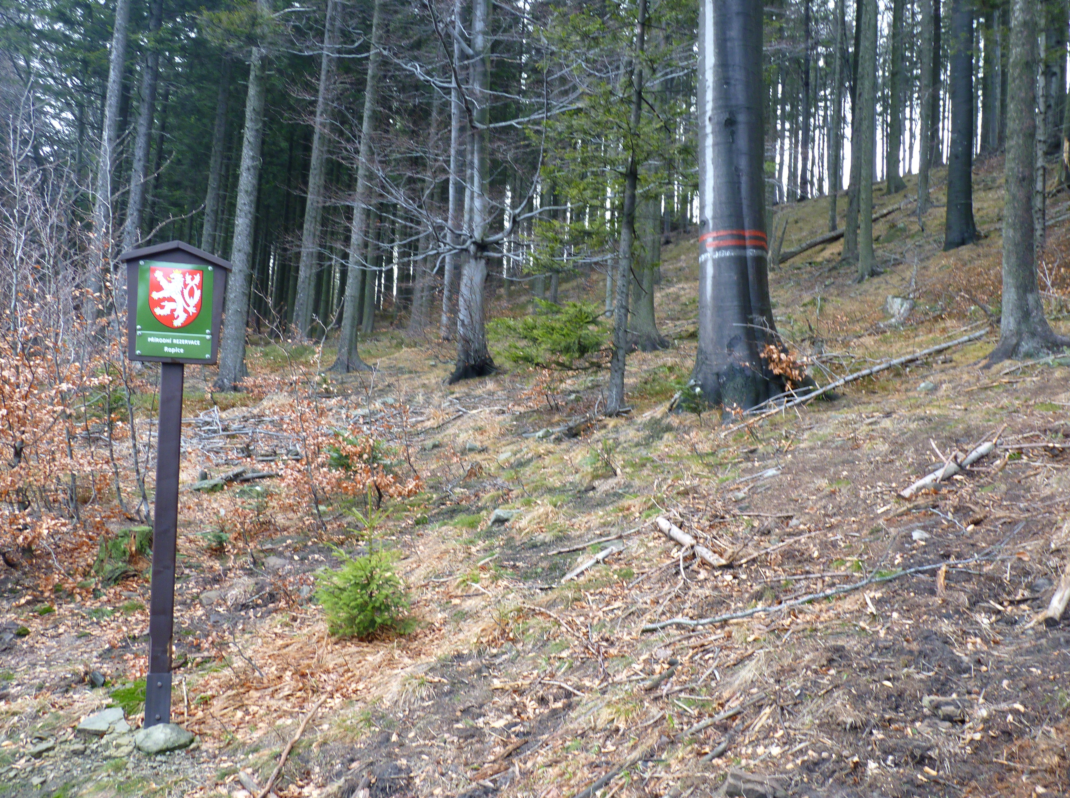 Ropice (nature reserve), Beskydy, Czech Republic